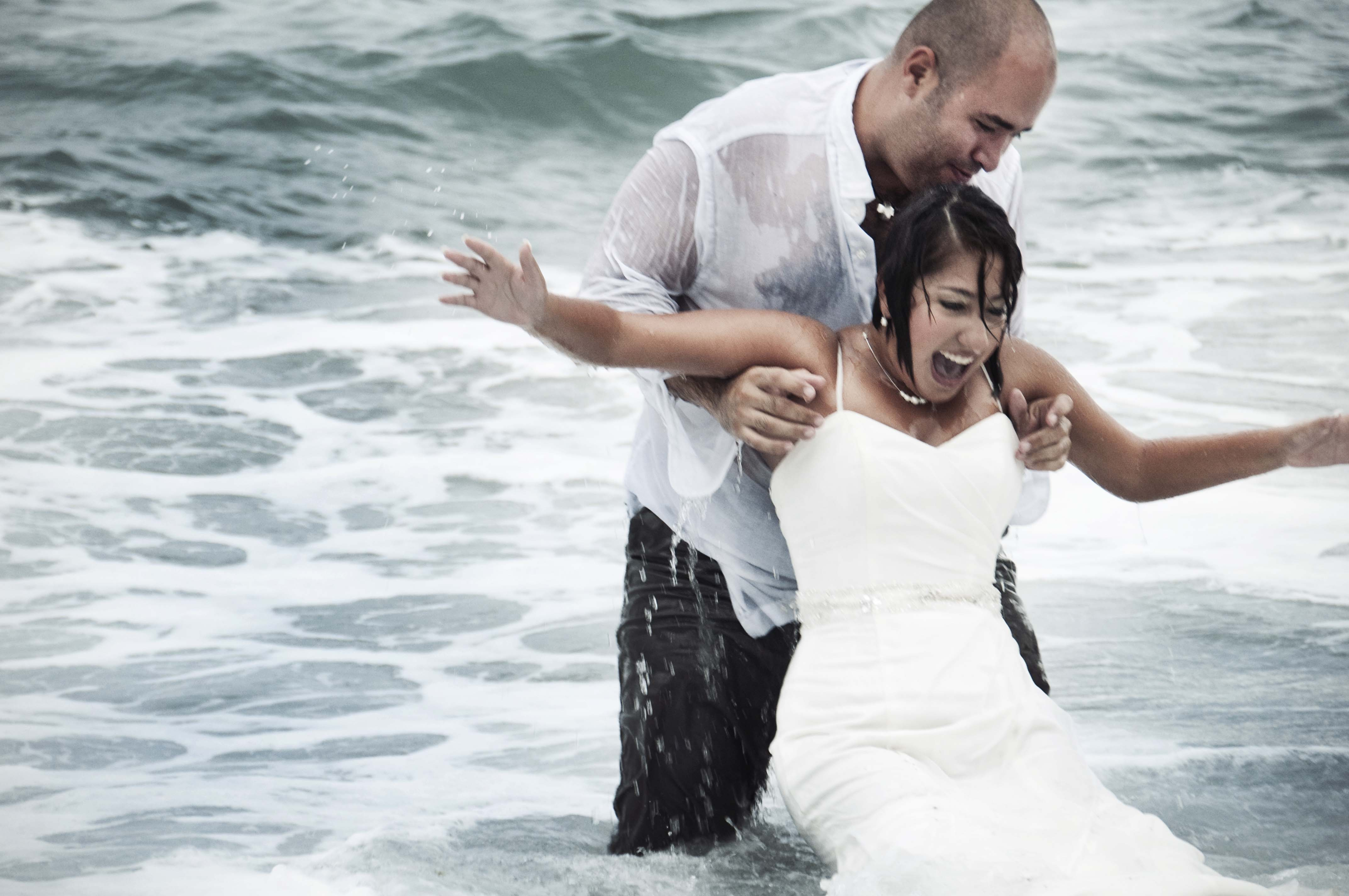 A straight couple is having fun at beach, getting soaked while dressed in wedding suit.